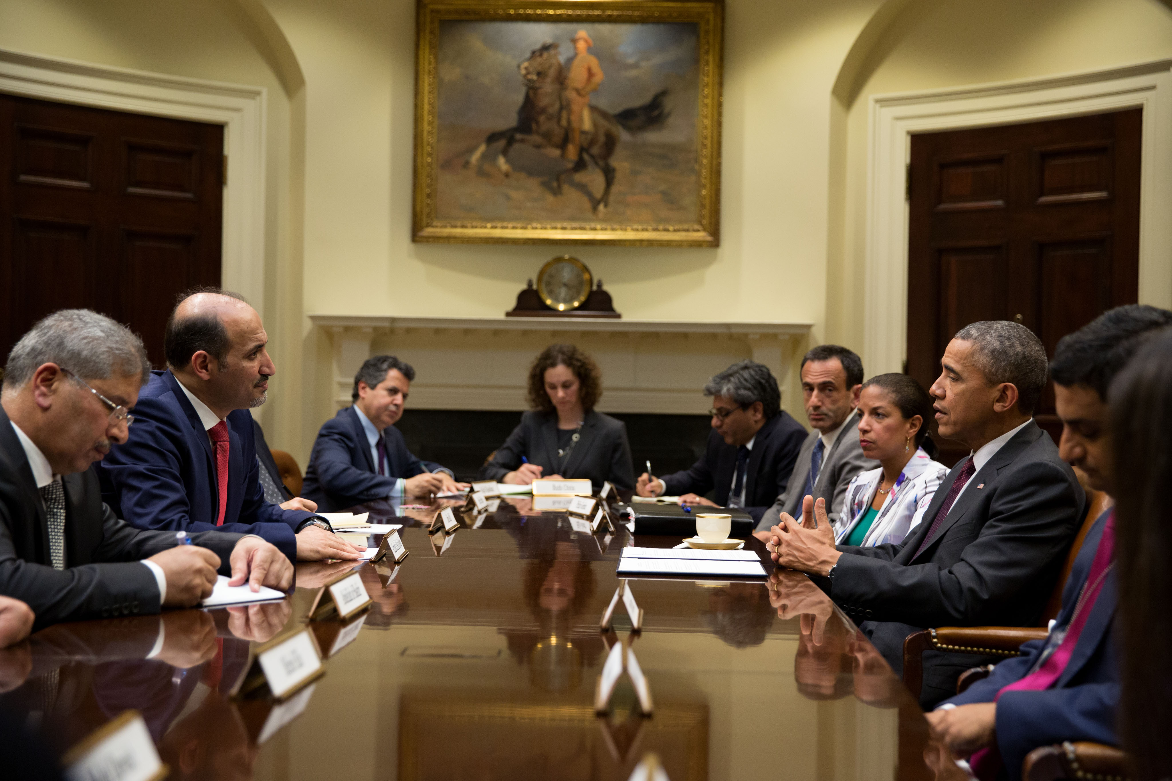 President Barack Obama drops by National Security Advisor Susan E. Rice's meeting with Syrian Opposition Coalition President Ahmad Jarba, second from left, in the Roosevelt Room of the White House, May 13, 2014. (Official White House Photo by Pete Souza)